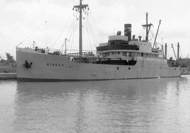 Photograph of SS Ringas taken in 1953.